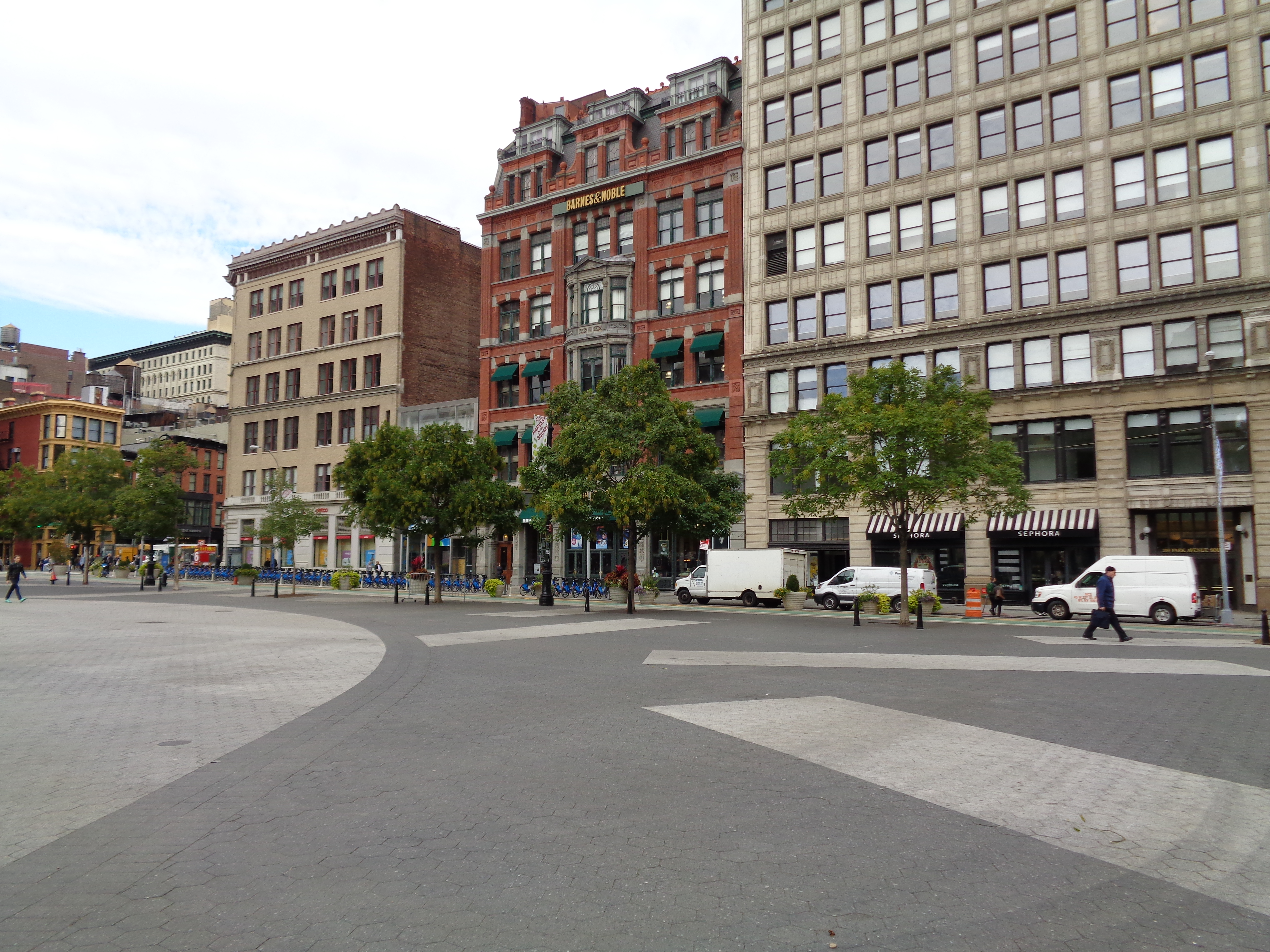 From right to left, the Everett Building and the Century Building (Barnes & Noble), 31 East 17th Street, and 860 Broadway, at Union Square East and East 17th Street in Union Square, Manhattan.